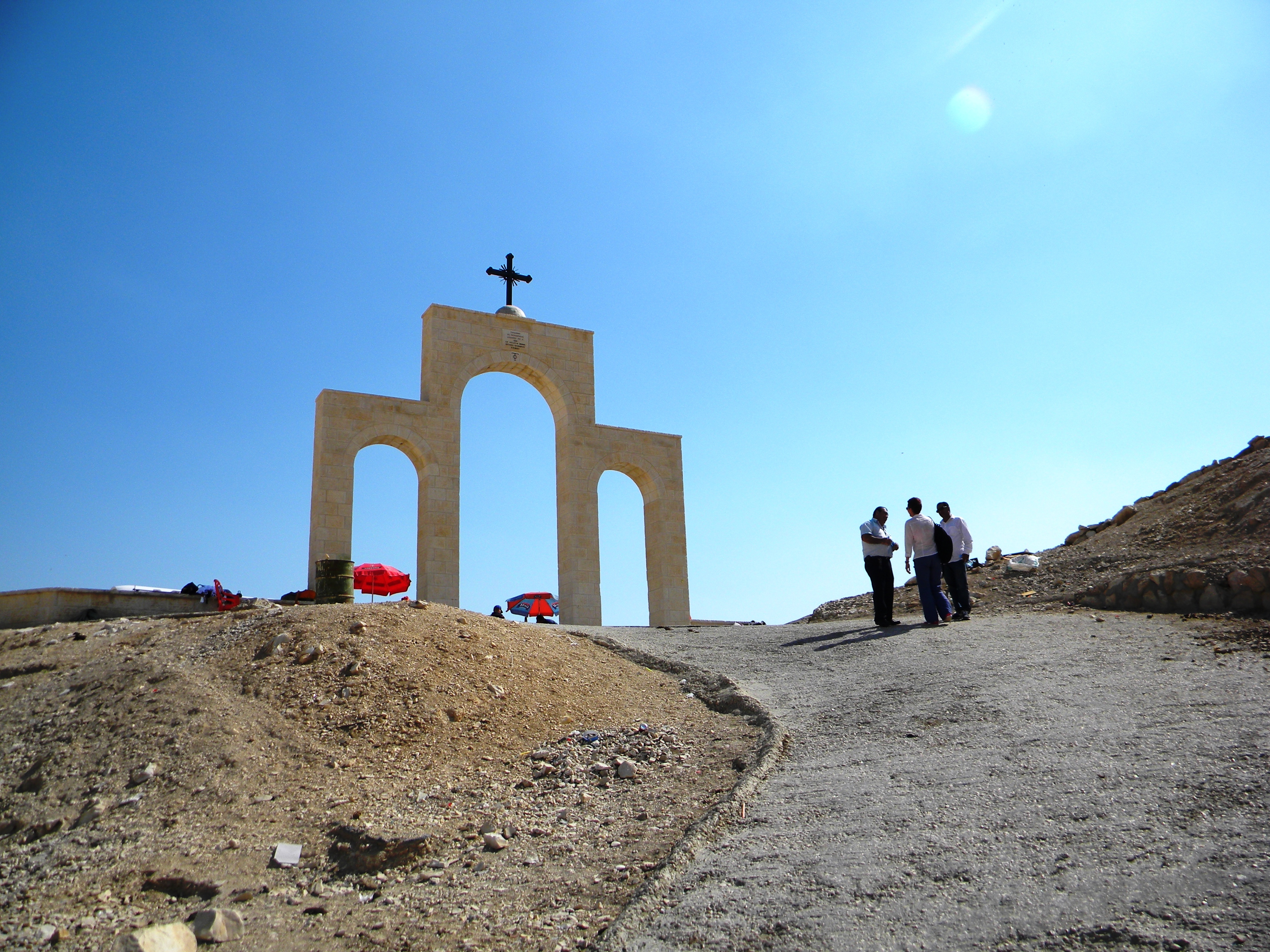 Land of Israel and Palestinian National Authority, Wadi Qelt (Valea Hozevei) (beginning the road towards St. George's Monastery); This is a photo of a heritage building in Israel. Its ID is Heritage sites in Israel with unknown IDs